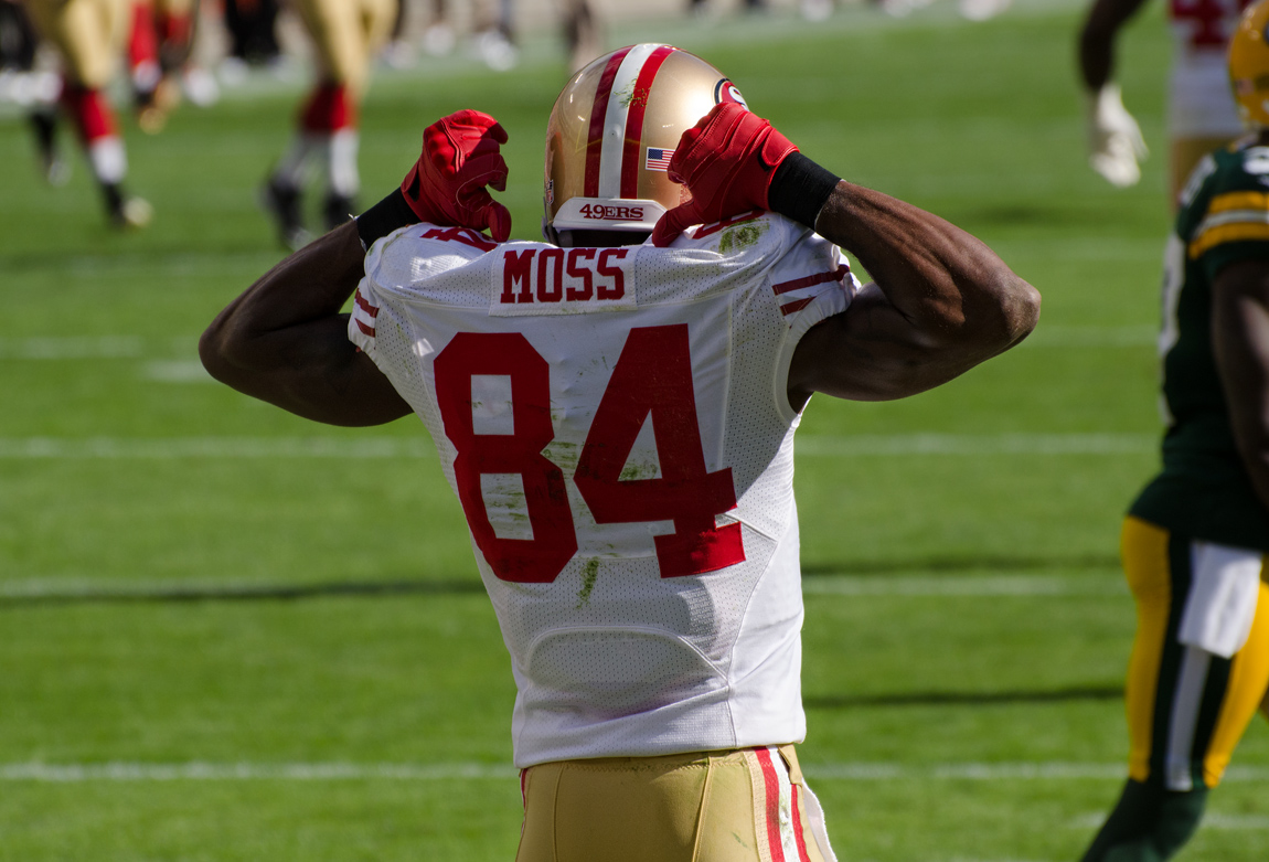 San Francisco 49ers vs. Green Bay Packers at Lambeau Field on September 9, 2012. Photo by Mike Morbeck.